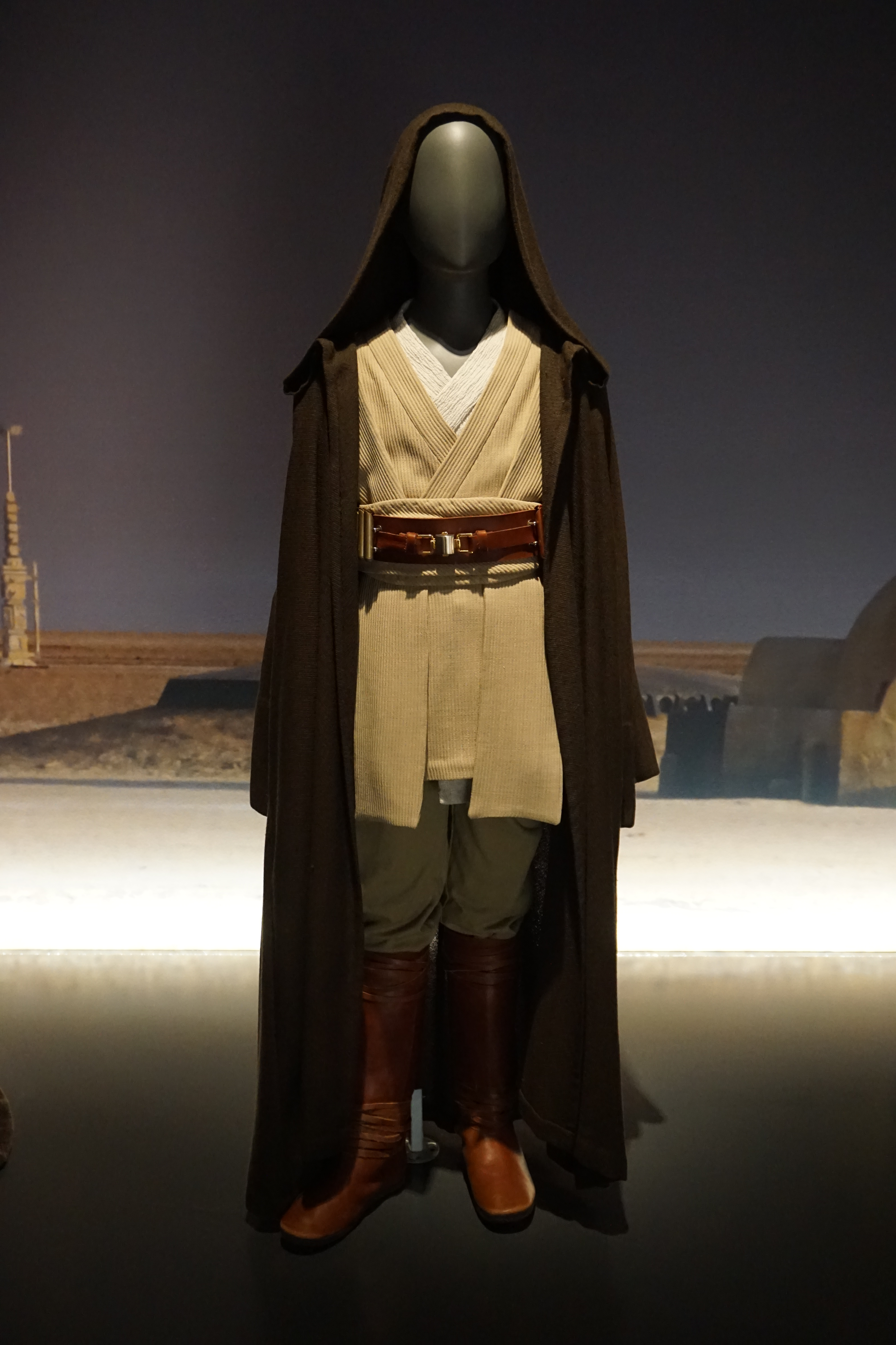 Anakin Skywalker's Jedi robes from Star Wars: Episode I – The Phantom Menace on display at the Star Wars and the Power of Costume traveling exhibit at the Detroit Institute of Arts in Detroit, Michigan (United States).